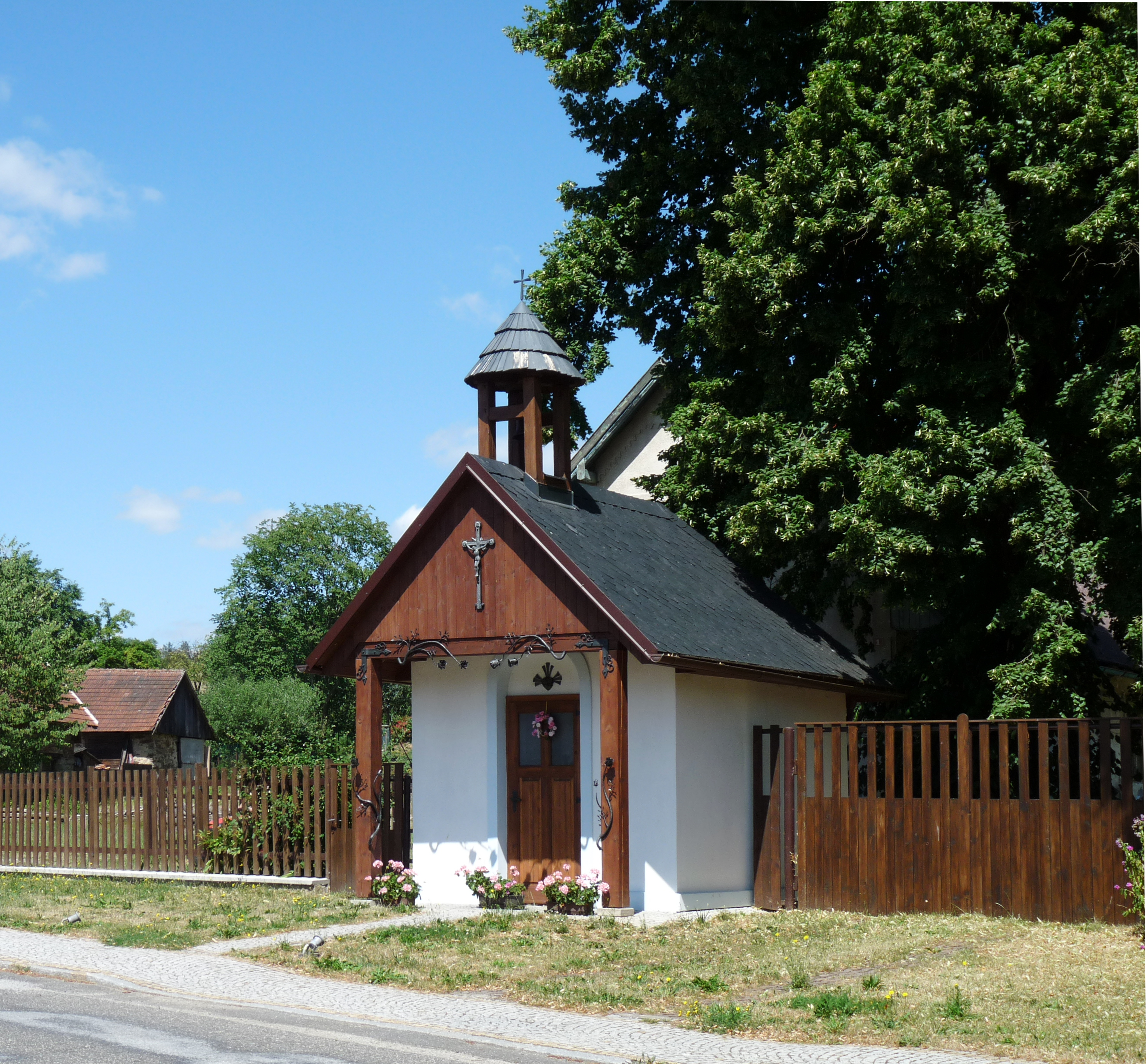 Chapel in the village of Pavlov, Havlíčkův Brod District, Vysočina Region, Czech Republic.